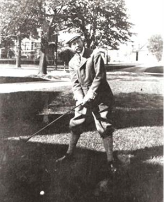 Leighton Calkins, creator of the handicapping system used in golf today, playing golf in 1909. The served as the mayor of Plainfield, New Jersey, from 1915-1920.